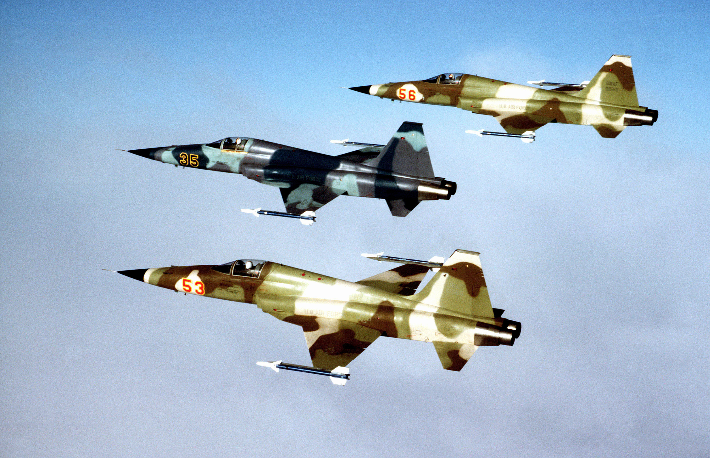 An air-to-air left side view of three F-5E Tiger II aircraft from the 527th Tactical Fighter Training Aggressor Squadron, RAF Alconbury, in formation.